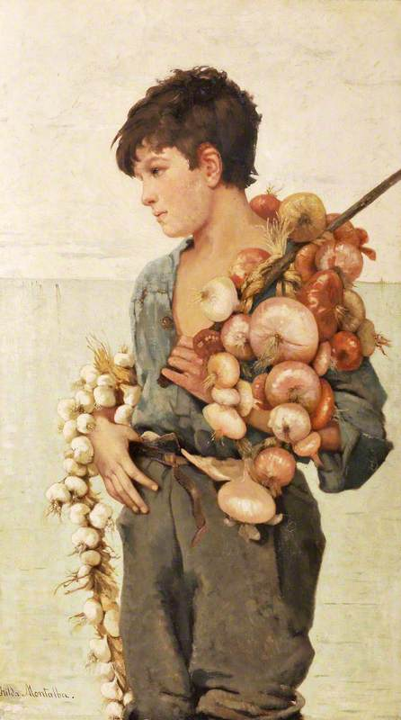 Montalba, Hilda (1946-1919); A Venetian Boy Onion-Seller ; National Trust, Tatton Park